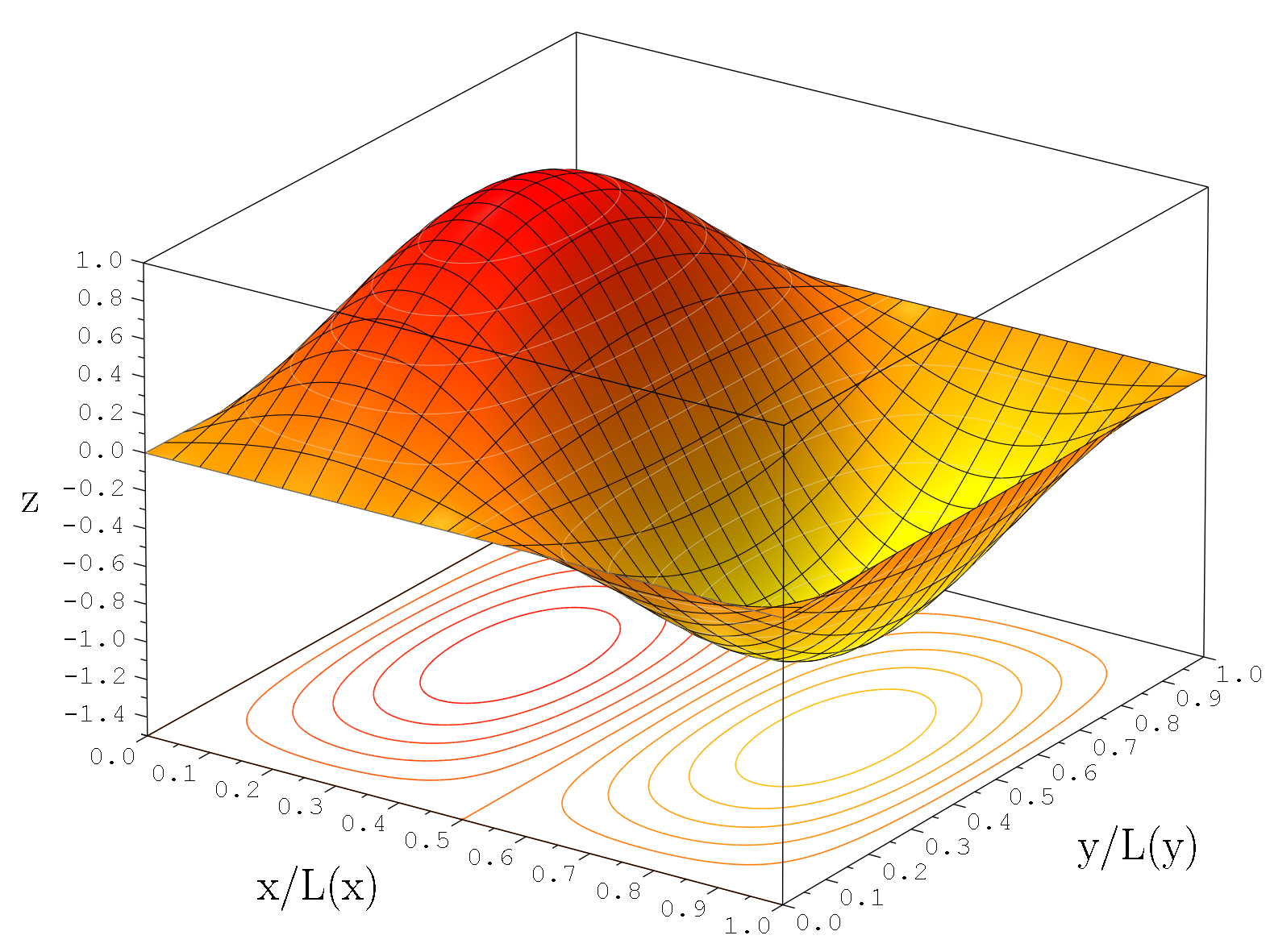 The quantum wavefunction of a particle in a 2D box of dimensions Lx and Ly. The wavenumbers are: nx=2 ny=1